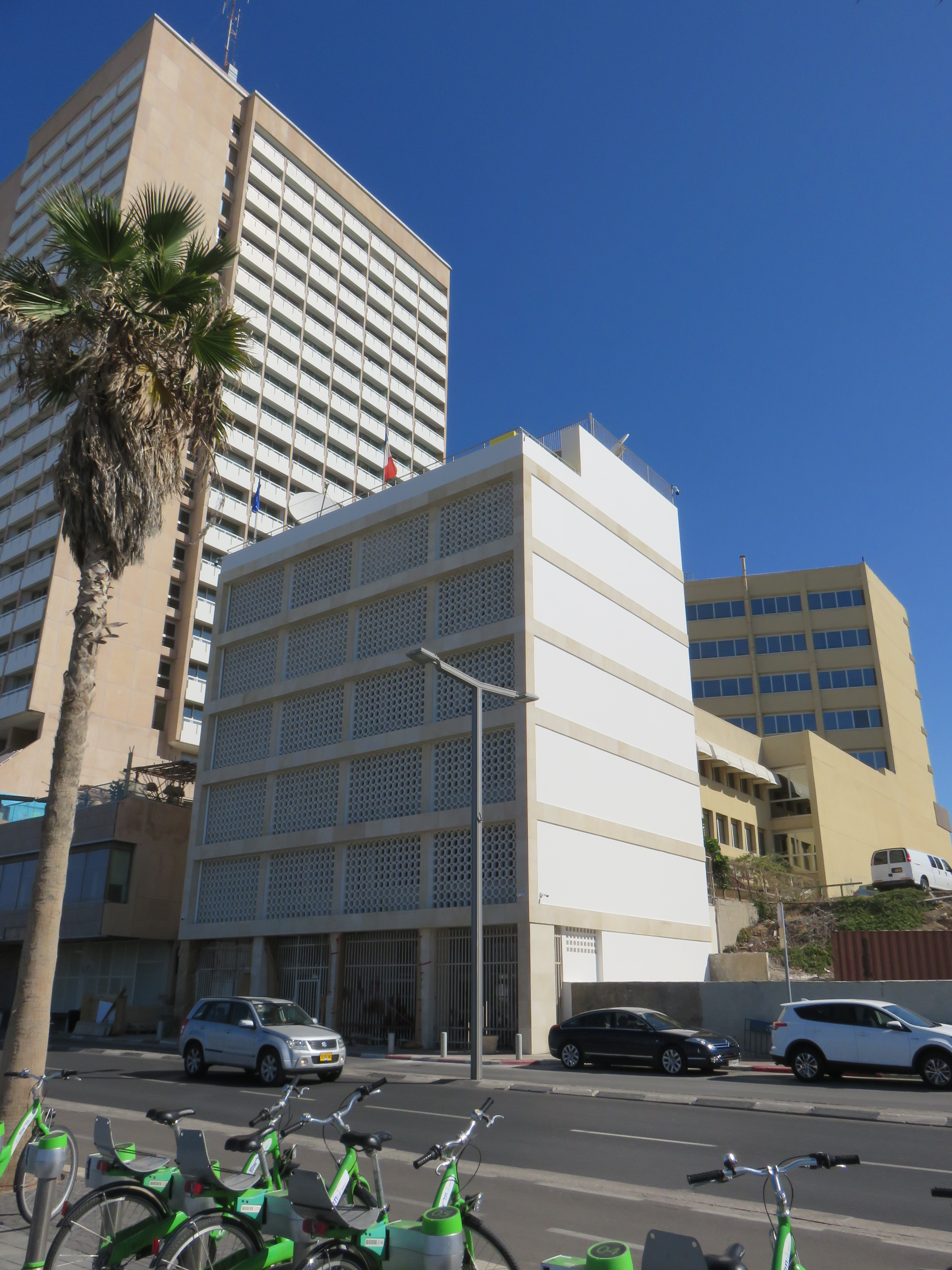 Photowalk through Tel Aviv with Nicolas Vigneron and Anne-Laure Michel